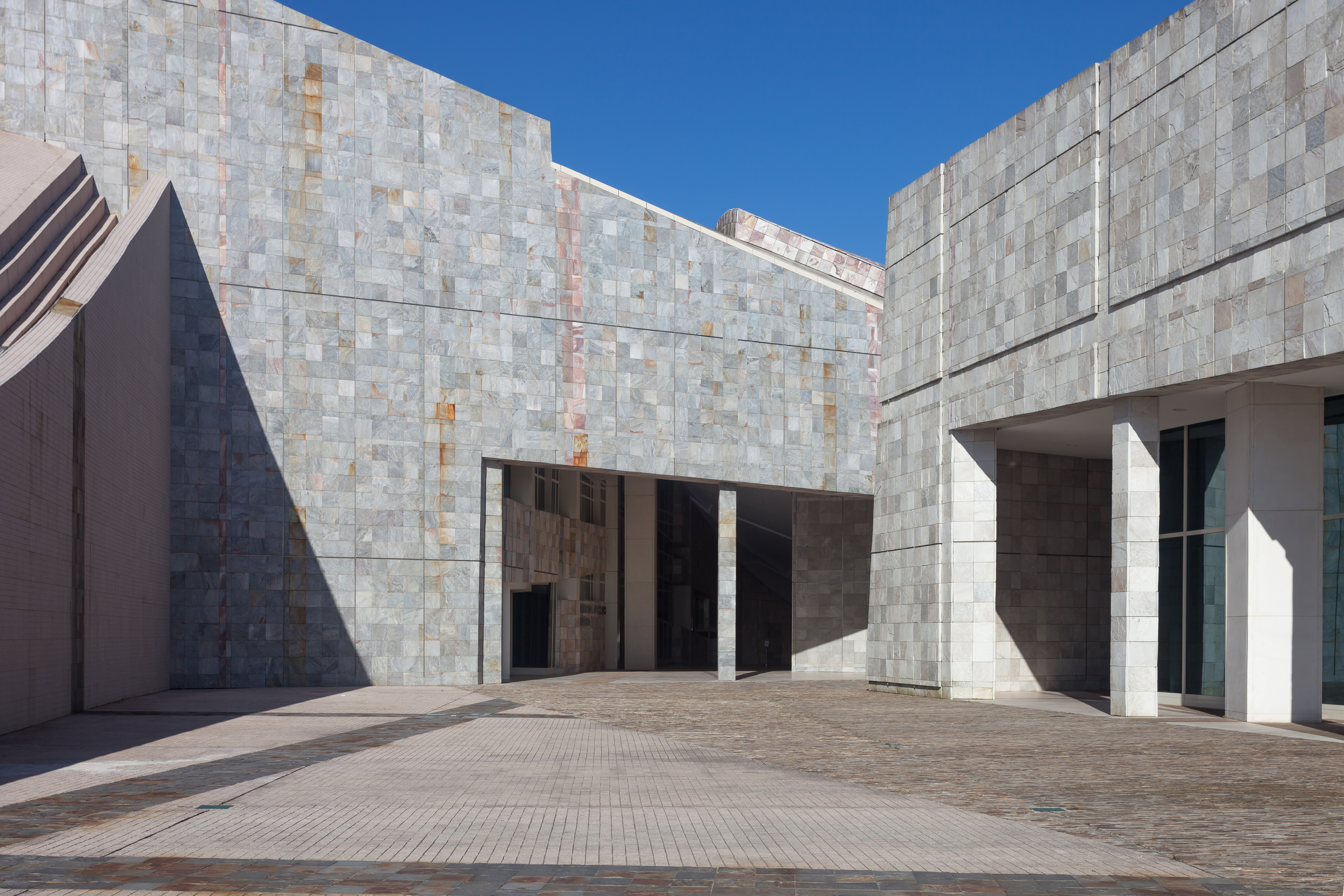 Library and Archive of Galicia. City of the Culture of Galicia. Santiago de Compostela. Peter EisenmanGalego: Biblioteca e arquivo de Galicia. Cidade da Cultura. Santiago de Compostela. Peter Eisenman